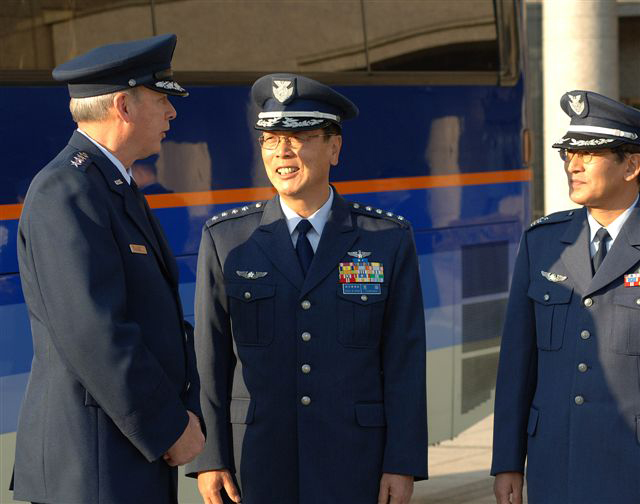 General Lord visiting Pacific 1 General Lance W. Lord, Commander, Air Force Space Command , confers with General Tadashi Yoshida, Chief of Staff, Japan Air Self Defense Force, as General Lord arrives for meetings at the Japan Defense Agency Jan. 11. General Lord is visiting the Pacific through Sunday discussing space capabilities with senior U.S. and allied military and civilian officials.